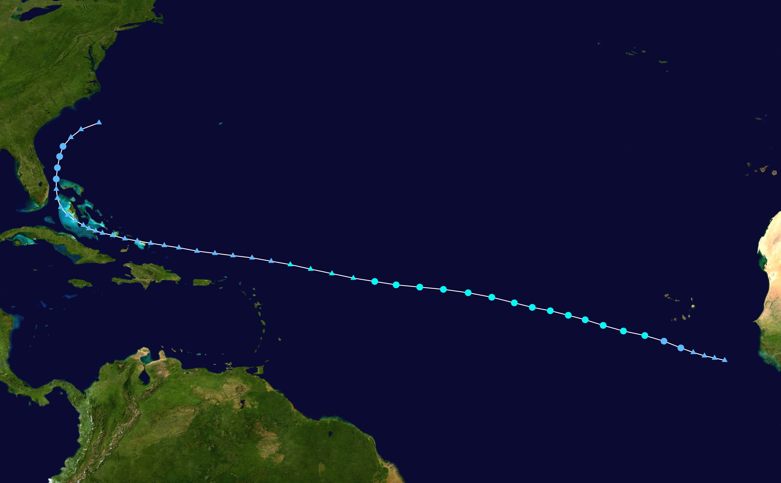 Track map of Tropical Storm Dorian of the 2013 Atlantic hurricane season. The points show the location of the storm at 6-hour intervals. The colour represents the storm's maximum sustained wind speeds as classified in the Saffir–Simpson scale (see below), and the shape of the data points represent the nature of the storm, according to the legend below. Saffir–Simpson scale Tropical depression≤38 mph≤62 km/h Category 3111–129 mph178–208 km/h Tropical storm39–73 mph63–118 km/h Category 4130–156 mph209–251 km/h Category 174–95 mph119–153 km/h Category 5≥157 mph≥252 km/h Category 296–110 mph154–177 km/h Unknown Storm type Tropical cyclone Subtropical cyclone Extratropical cyclone / Remnant low / Tropical disturbance / Monsoon depression